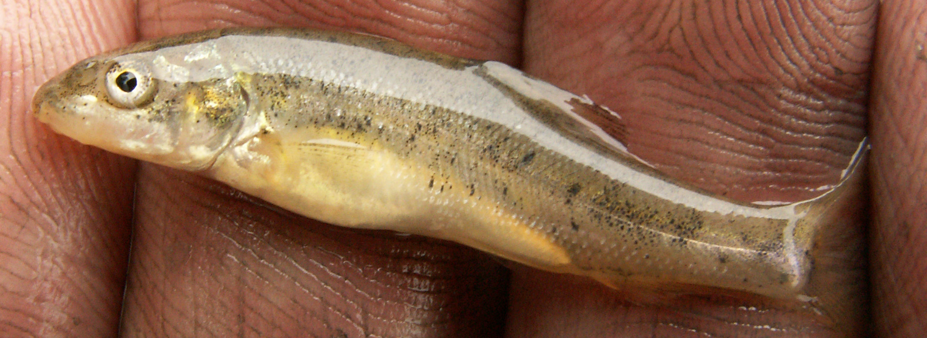 Barbus barbus at first summer from the river Waal, Tiel Netherlands